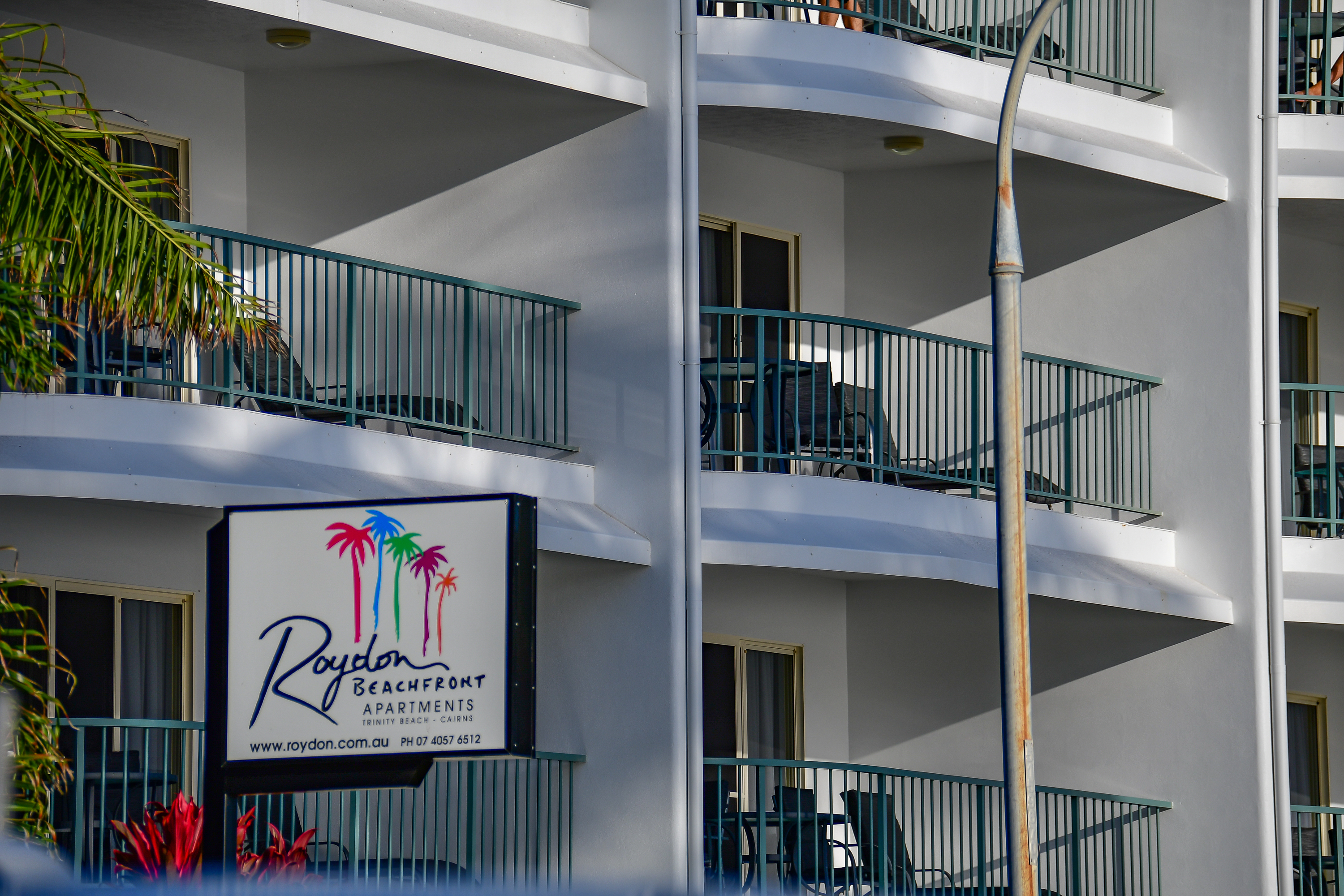 Some of the beachfront resorts and apartments along Trinity Beach foreshore